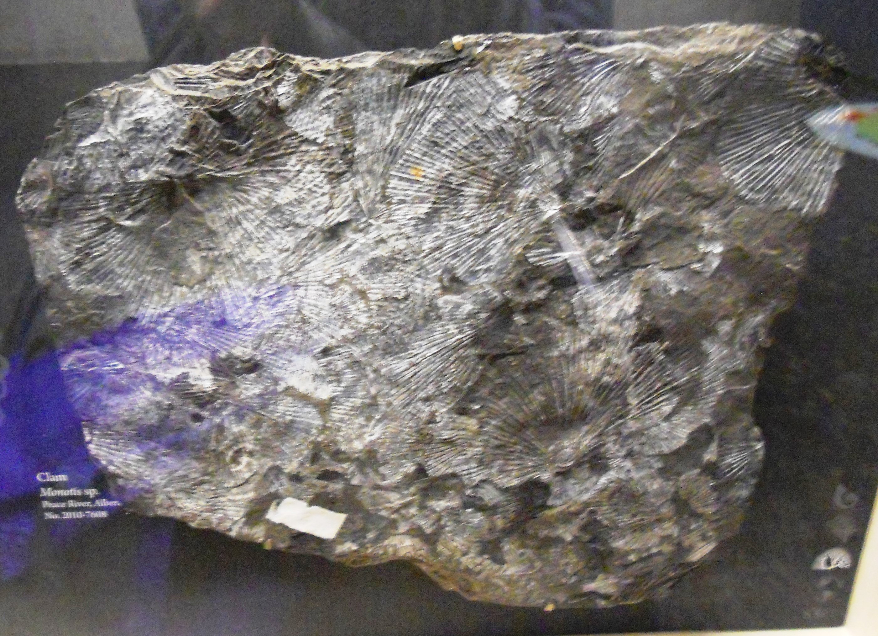 Beaty Biodiversity Museum LocationVancouver, British Columbia, CanadaCoordinates49° 15′ 48.96″ N, 123° 15′ 05.04″ W Established2010Web pageBeaty Biodiversity MuseumAuthority control : Q4120770 VIAF: 4146634510341932833 institution QS:P195,Q4120770